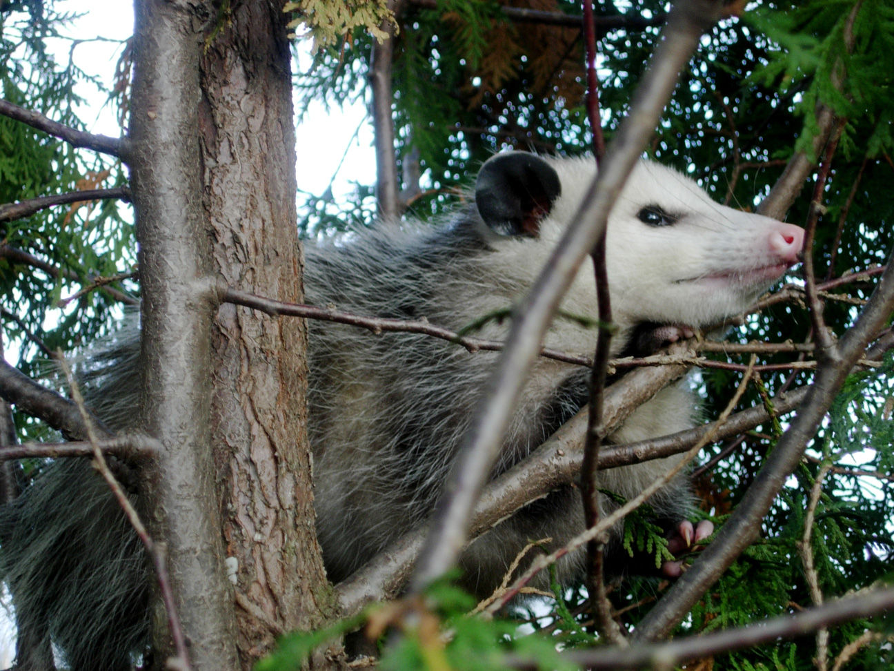 Virginia Opossum (Didelphis virginiana) in a juniper tree in northeastern Ohio.